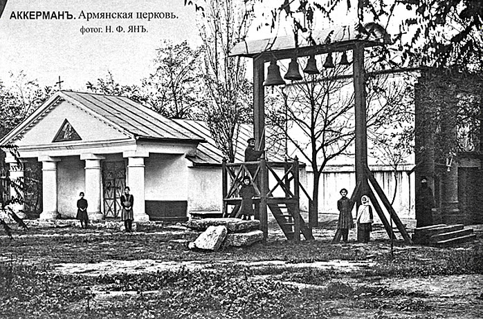 Saint Mary Armenian church, built in the XIV century, Bilhorod-Dnistrovskyi, 1 Kutuzov Street